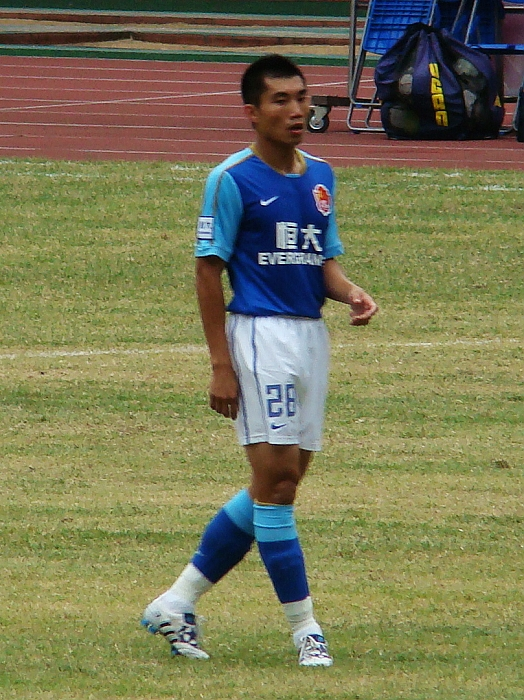 Chinese midfielder Zheng Zhi in Guangzhou Evergrande